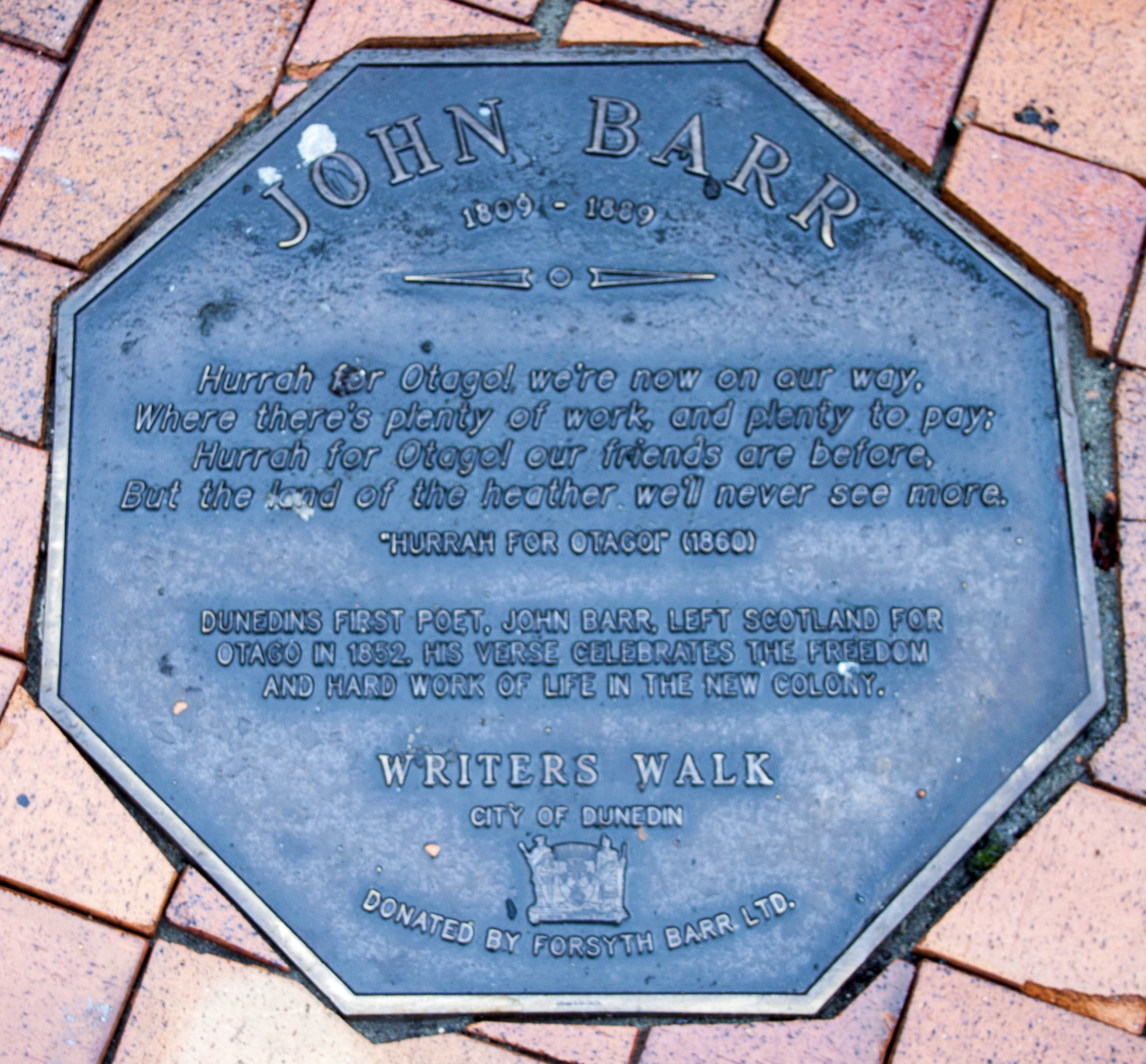 Plaque dedicated to John Barr in Dunedin, on the Writers' Walk on the Octagon